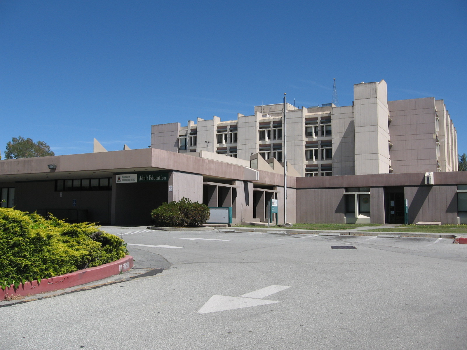 The Pajaro Valley Unified School District building on Green Valley Road in Watsonville. Also known as "The Towers."